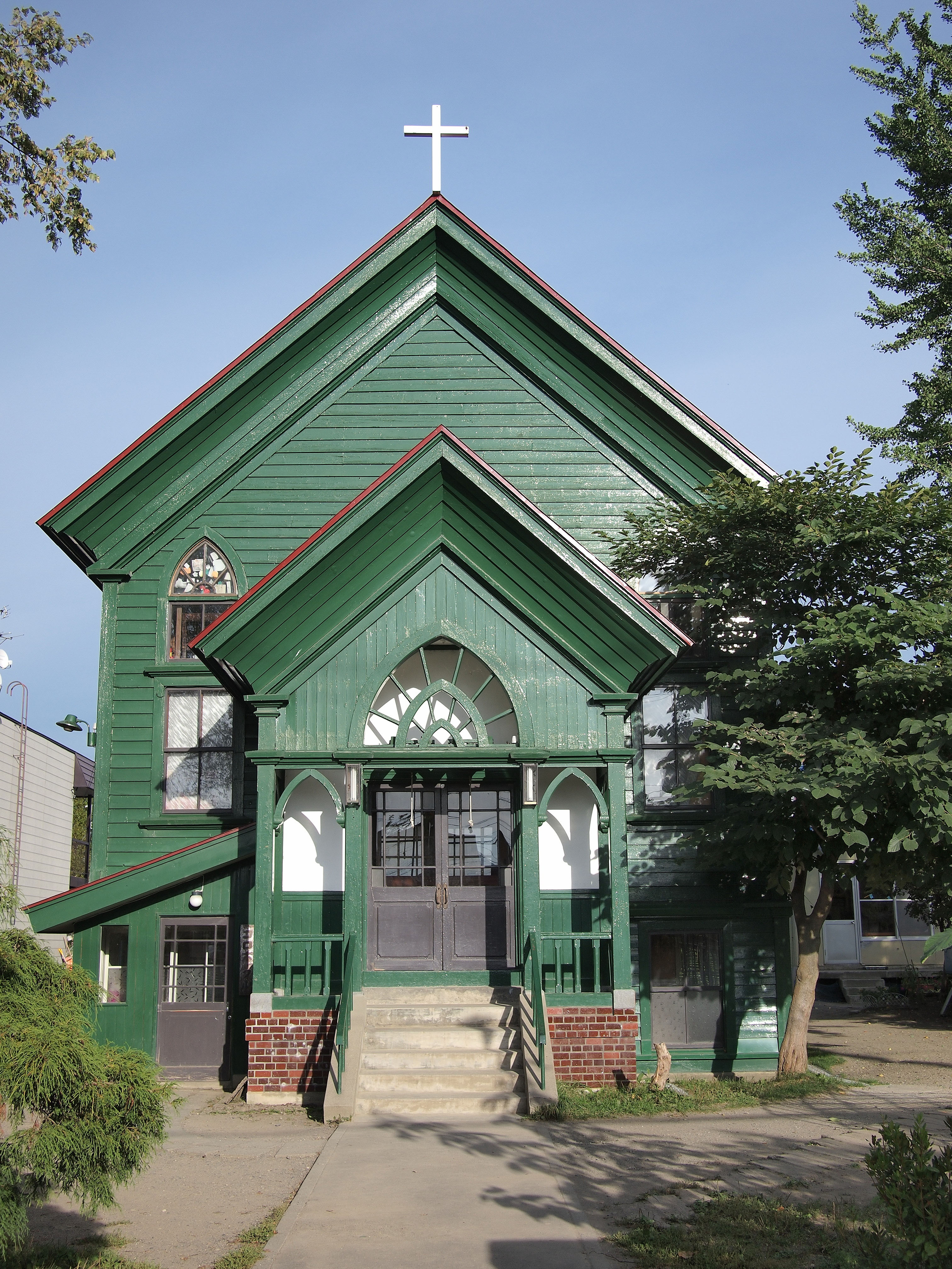 Nayoro church, Nayoro, Hokkaido, Japan